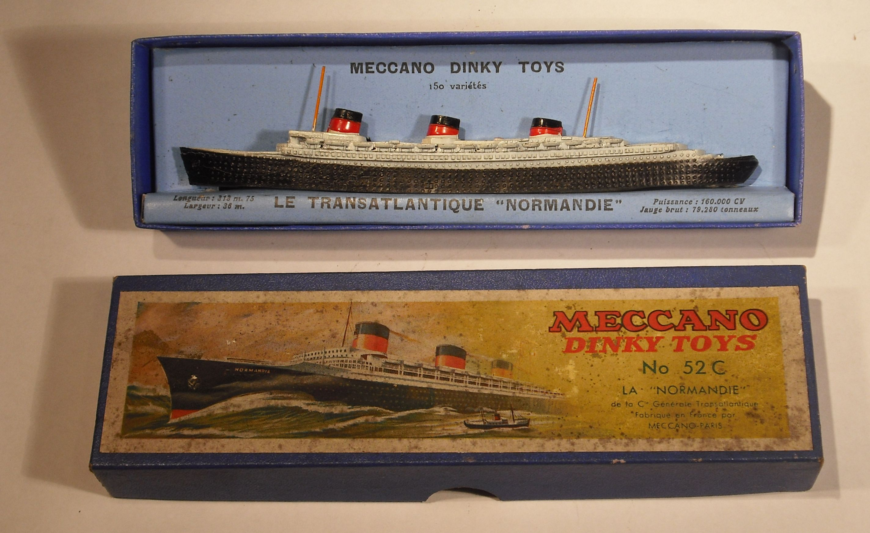 Dinky Toy model of the liner Normandie